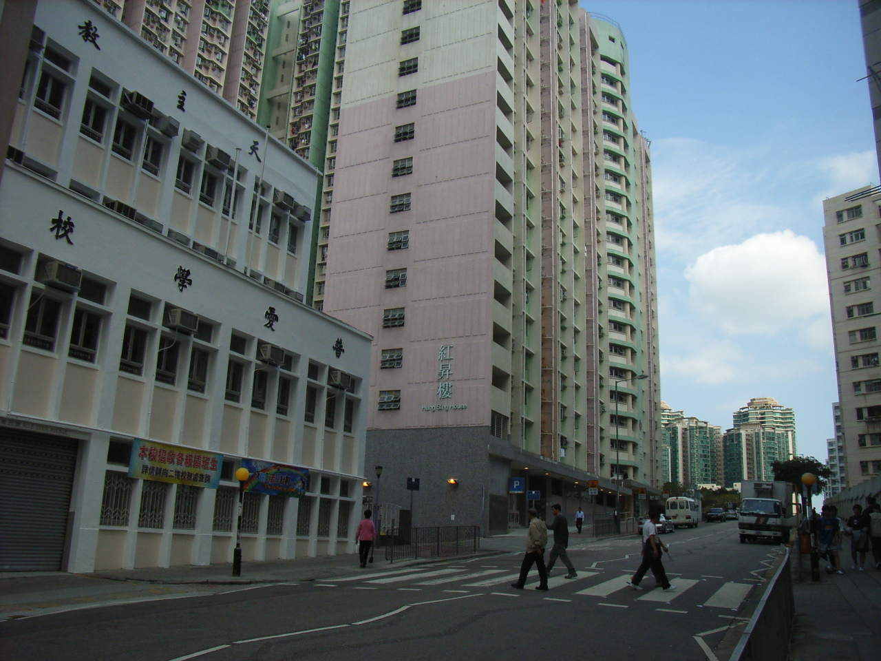 天主教普愛學校, 戴亞街 及紅磡邨紅昇樓. Hung Sing House of Hung Hom Estate. Photo created by User:HungBEER.